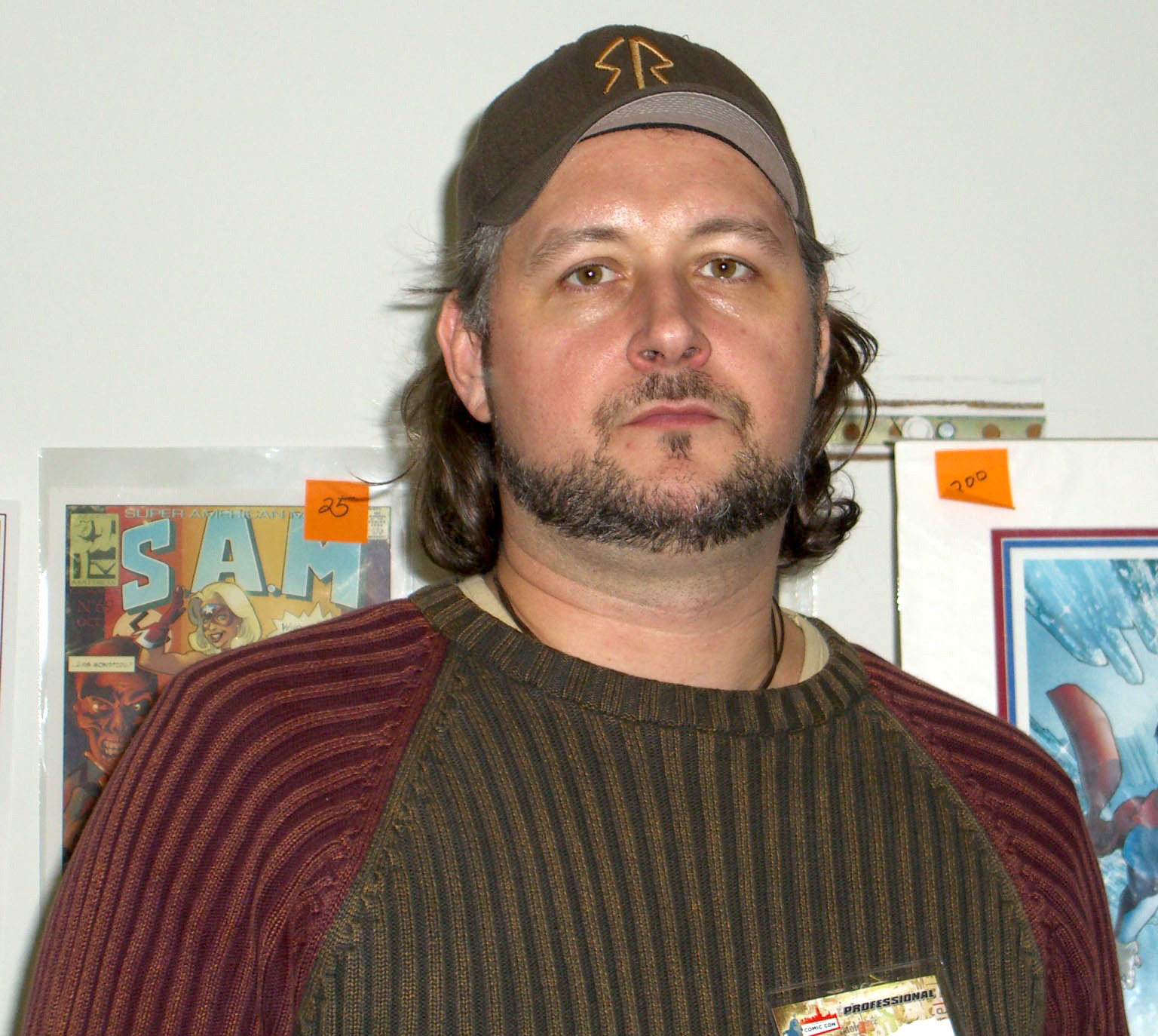 Comic book creator Stephane Roux at the Big Apple Convention in Manhattan. Photographed by Luigi Novi. This photo may only be used if the photographer is properly credited. (See Licensing information below.)